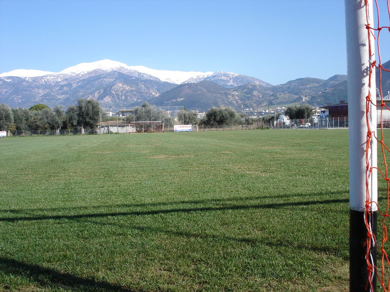 Fostiras Ovryas Groud Greece